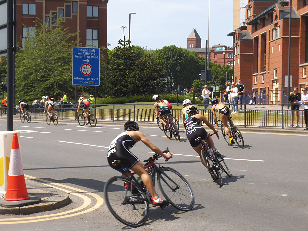 Leeds Triathlon 2018 - rounding the curve